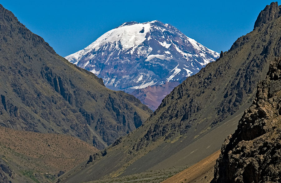 The Tupungato volcano seen from Punta de Vacas on Ruta Nacional 7, Argentina.